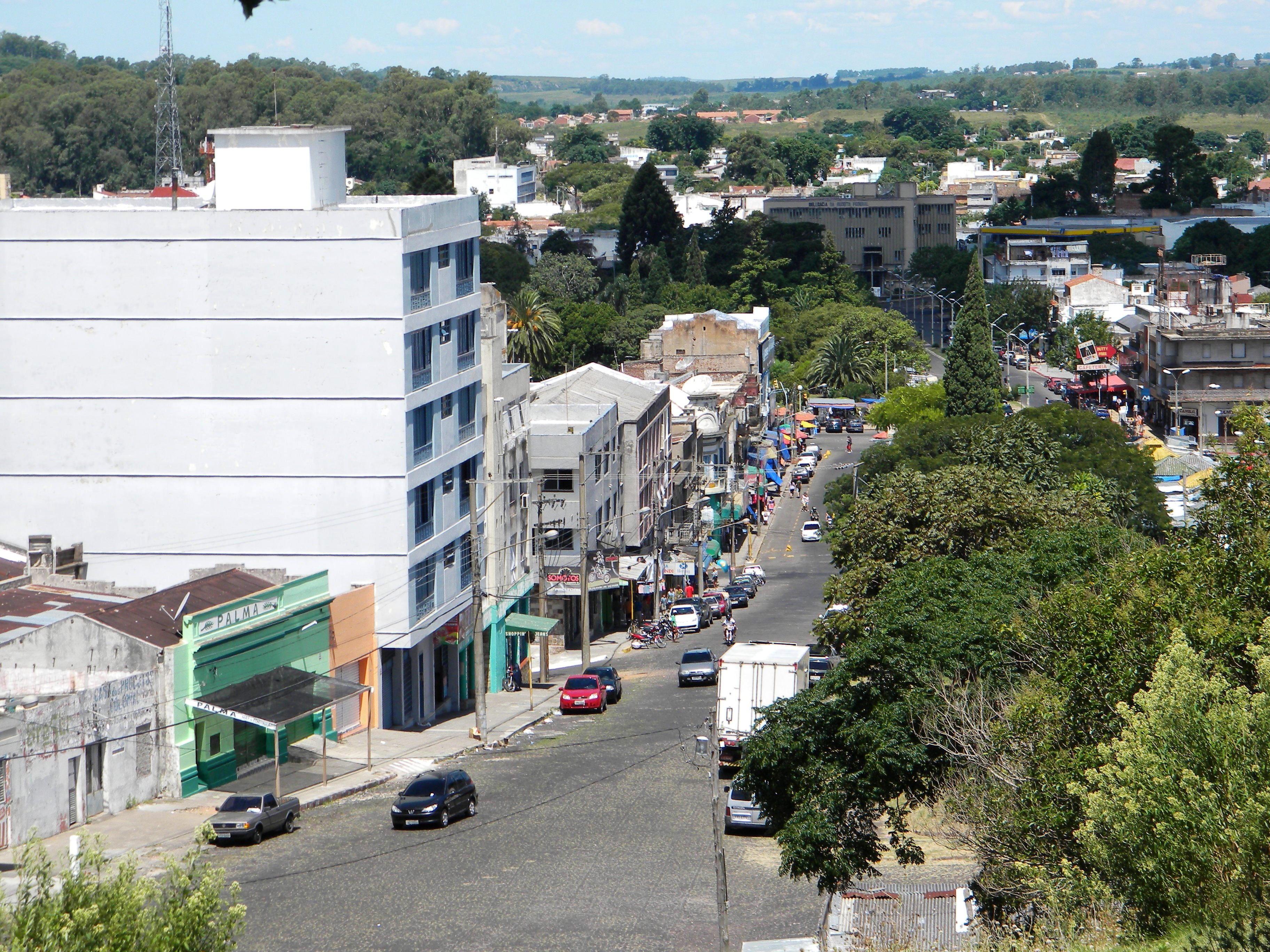 This photo shows one of the main streets of Rivera, Uruguay